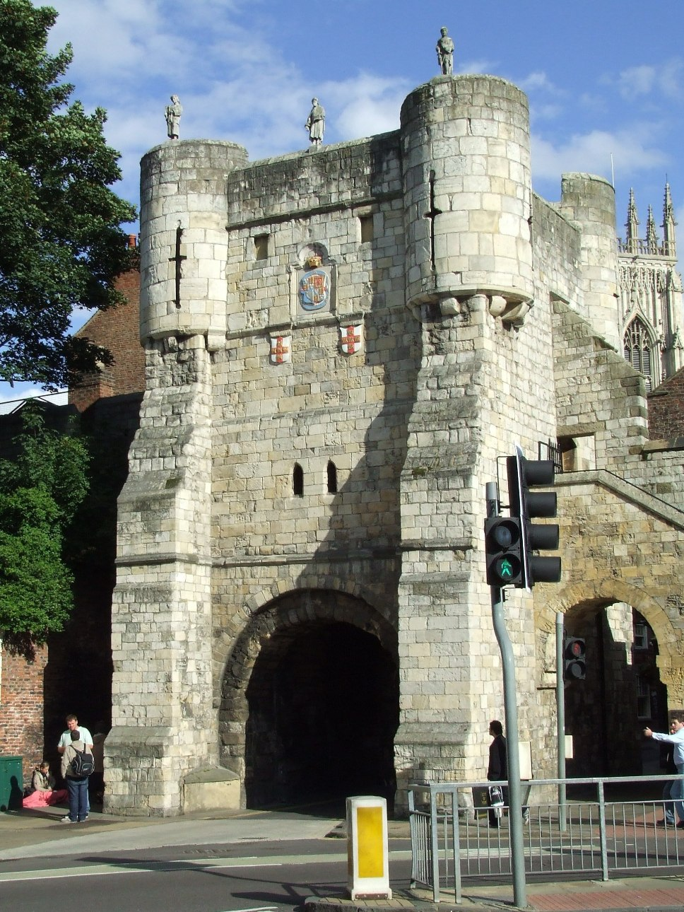 Bootham Bar, York